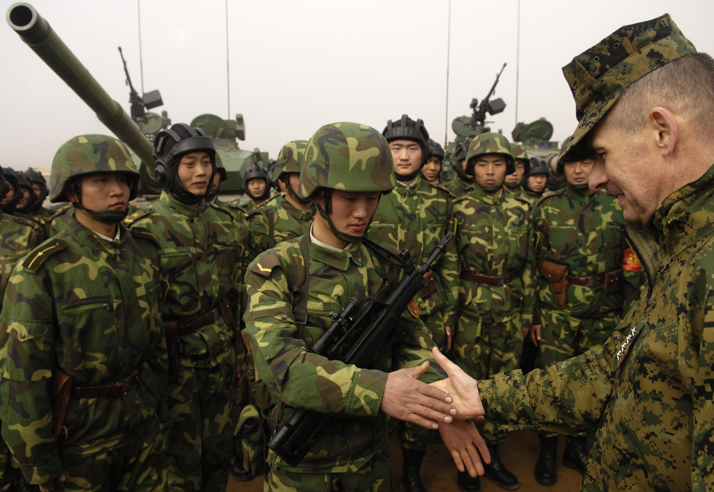 Chairman of the Joint Chiefs of Staff U.S. Marine Gen. Peter Pace shakes hands with Chinese tanker soldiers with the People's Liberation Army at Shenyang training base, China, March 24, 2007.